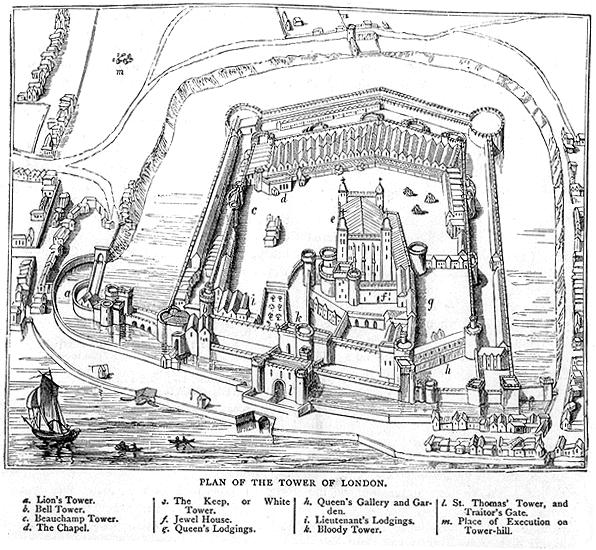 This diagram of the Tower of London appears in Picturesque England by Laura Valentine (1891), where it is stated to be based on an engraving published in 1597. Copyright: Laura Valentine does not appear in the Dictionary of National Biography, and I have not been able to determine her date of death, but it is probable that she died more than 70 years ago, making this image public domain in the UK.